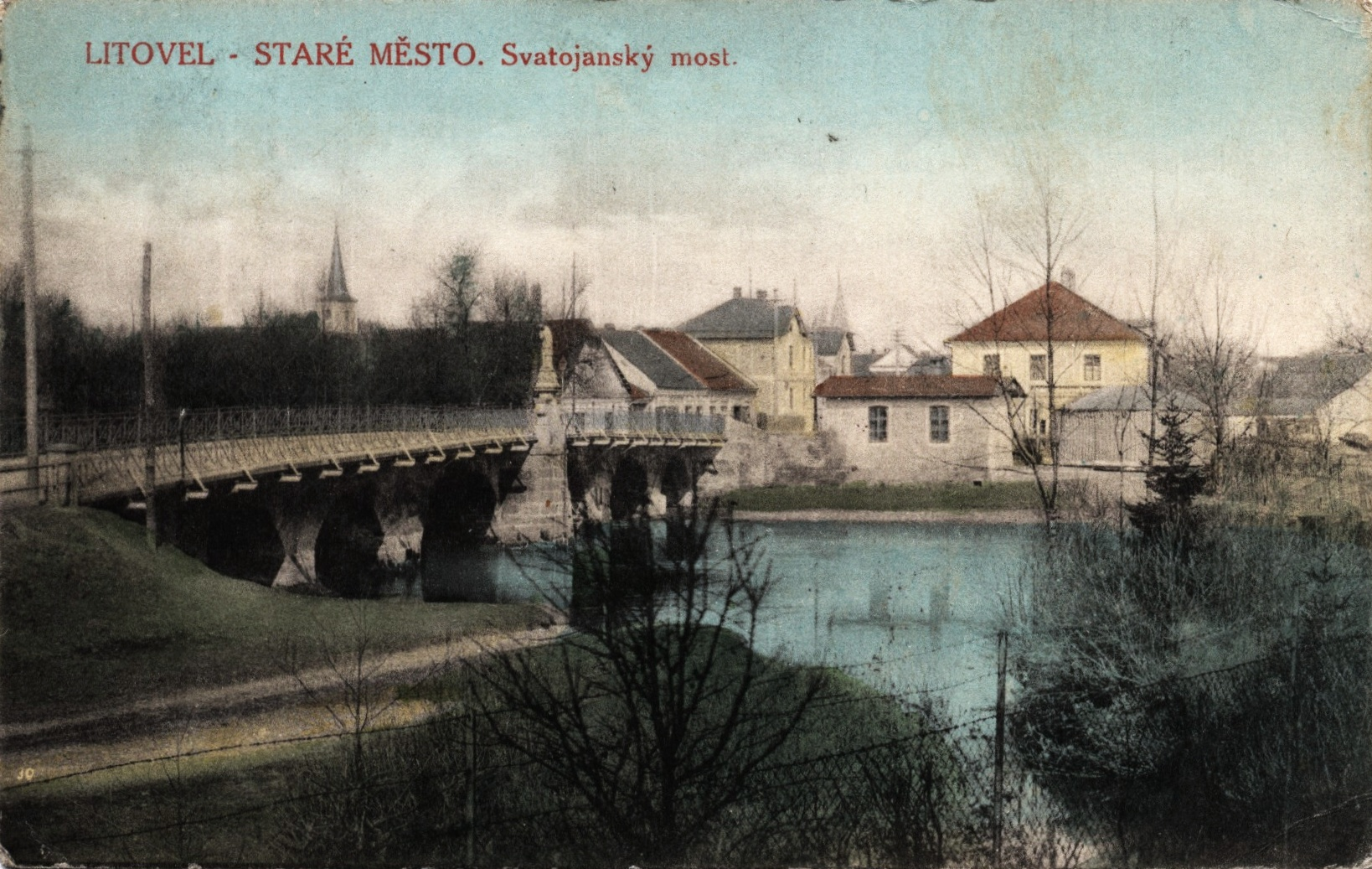 Svatojánský most (Saint John Bridge) in Litovel from the south-east.